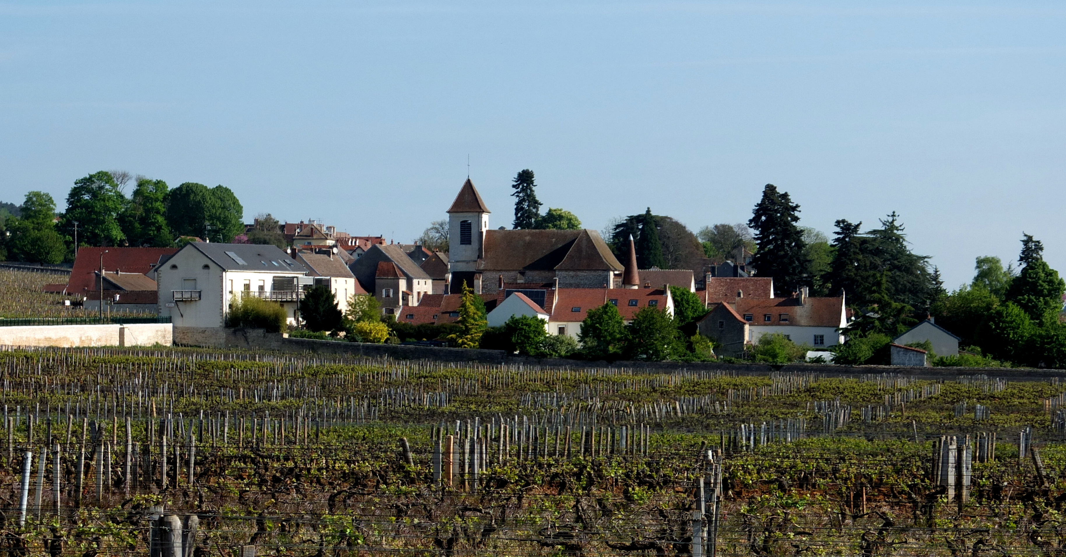 General view (south) of Morey-Saint-Denis, France, in the northern section of the Côte d'Or called Côte de Nuits.